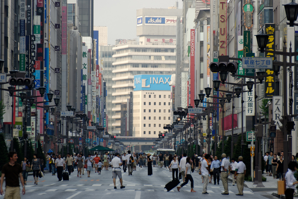 Main street of Ginza (Tokyo) on a Sunday afternoon. One special occasion to take a picture of this street without being overrun by cars...